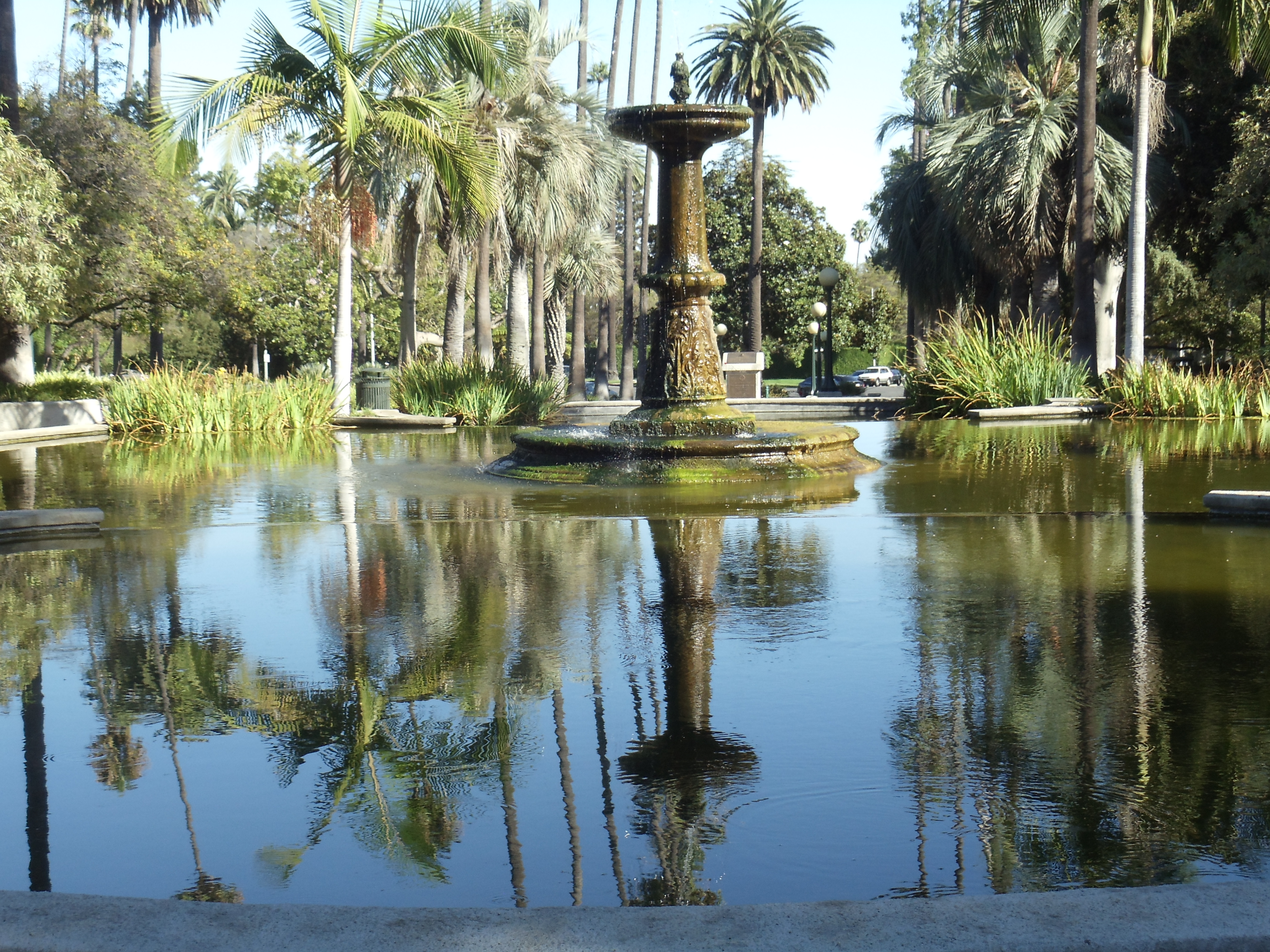 View of the fountain and reflection in the Will Rogers Memorial Park in Beverly Hills, California